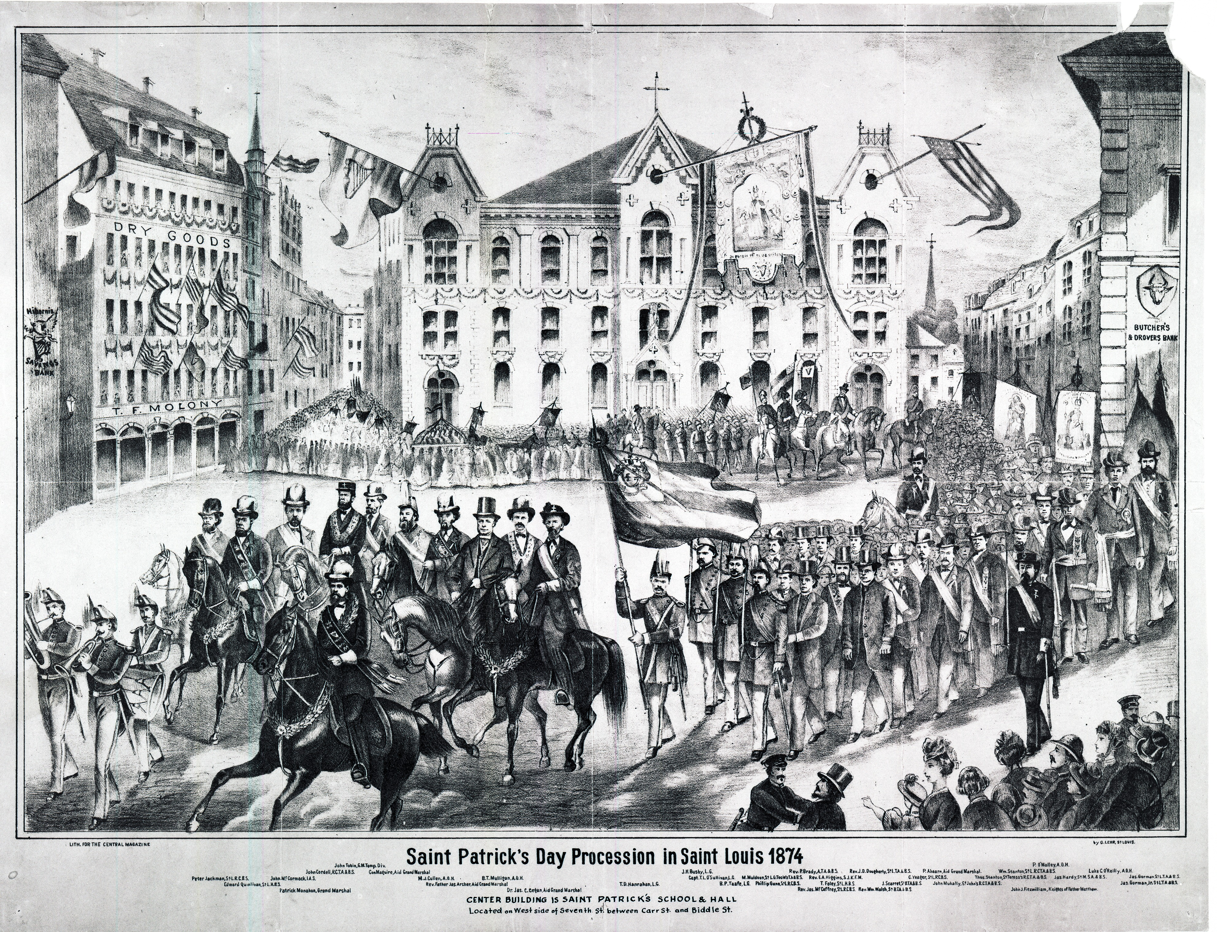 Horizontal lithograph showing a view of the 1874 Saint Patrick's Day procession in front of Saint Patrick's School and Hall, also includes T.F. Molony Dry Goods Building, Butcher's and Drover's Bank, and Hibernia Savins Bank. Prominent persons are identified in the caption.Title: "St. Patrick's Day Procession in St. Louis, 1874", west side of Seventh Street between Carr Street and Biddle Street.